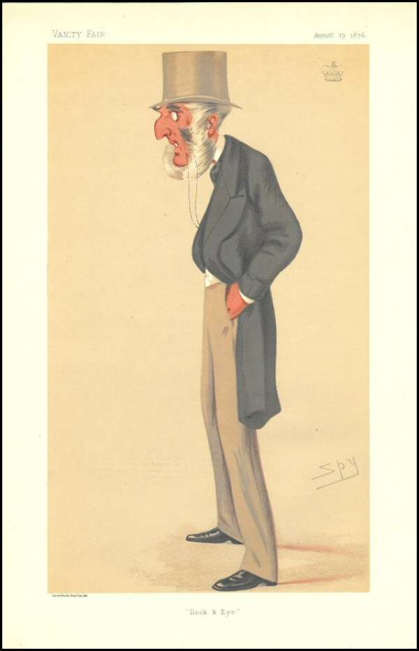 Statesmen No.232: Caricature of Lord Vivian. Caption reads: "Hook & eye"